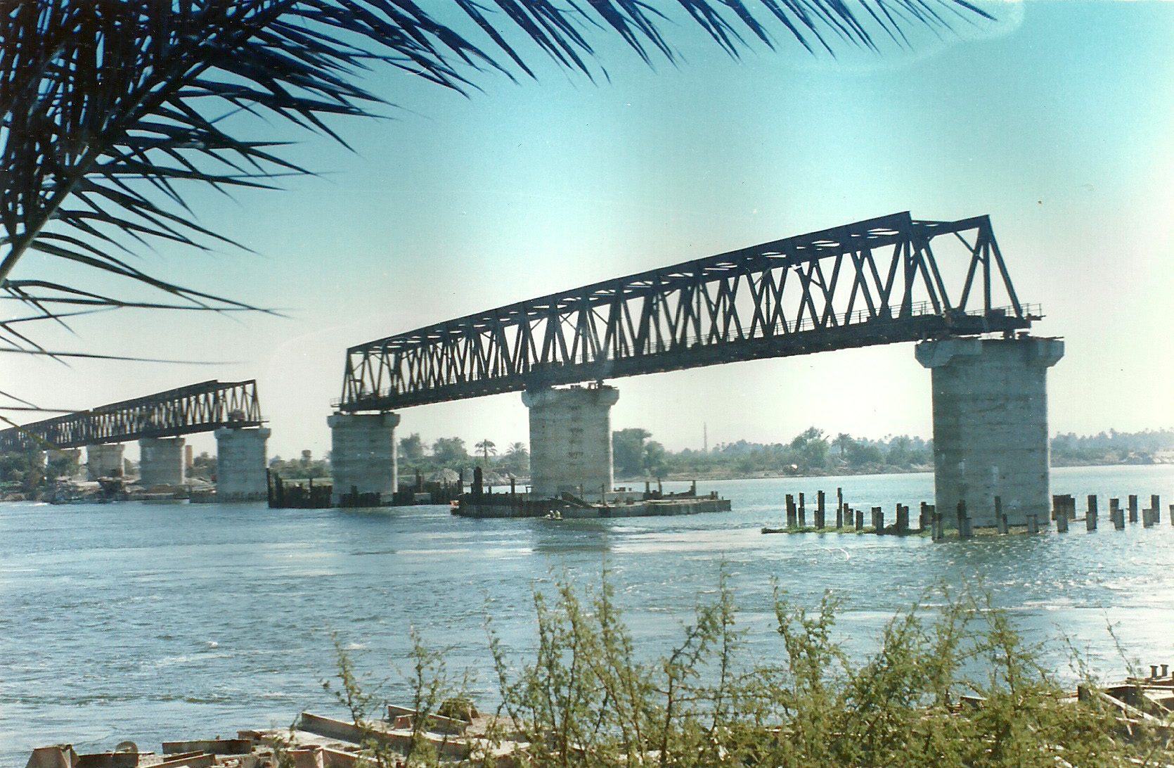 A railway bridge under construction in Qena, Egypt.